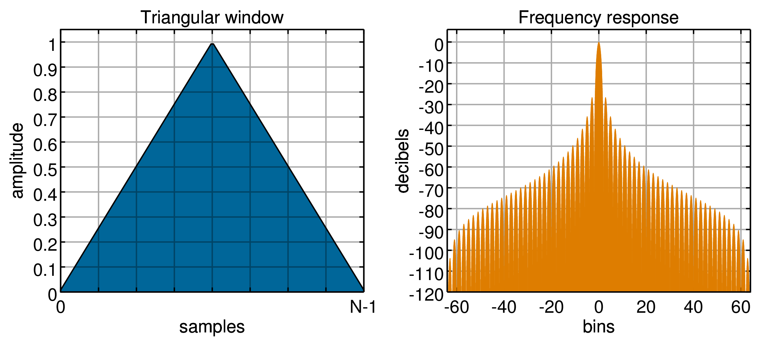 triangular window and frequency response